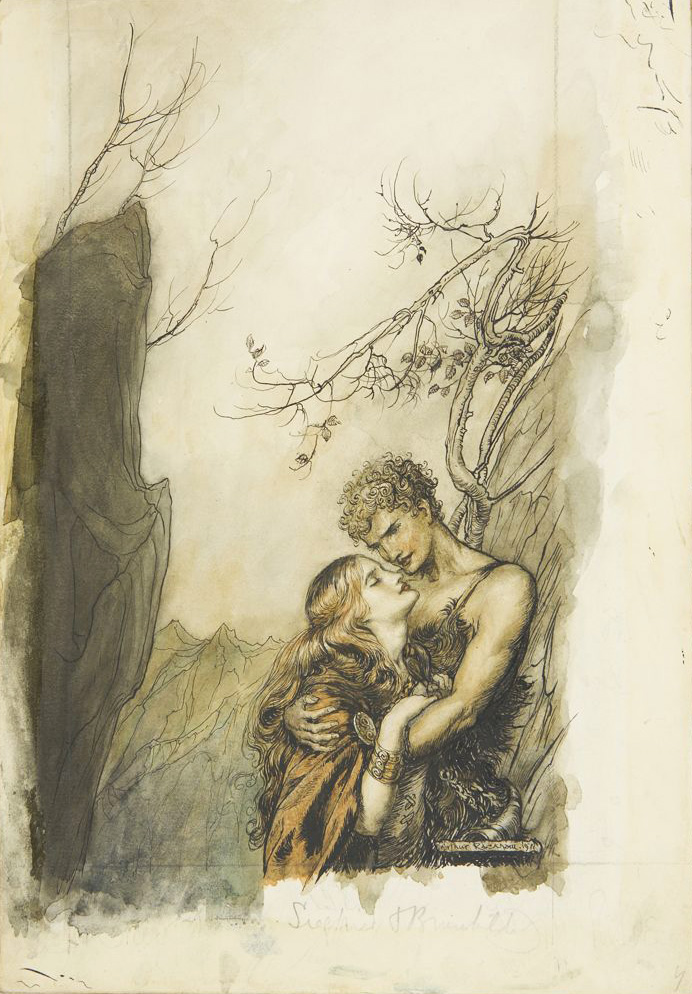 Lovers, ink and watercolour illustration by Arthur Rackham